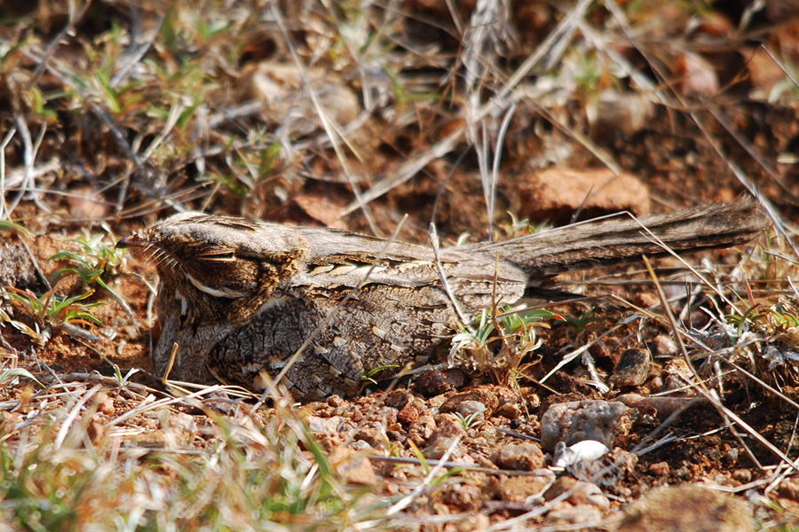 Indian Nightjar (Caprimulgus asiaticus) nanmangalam